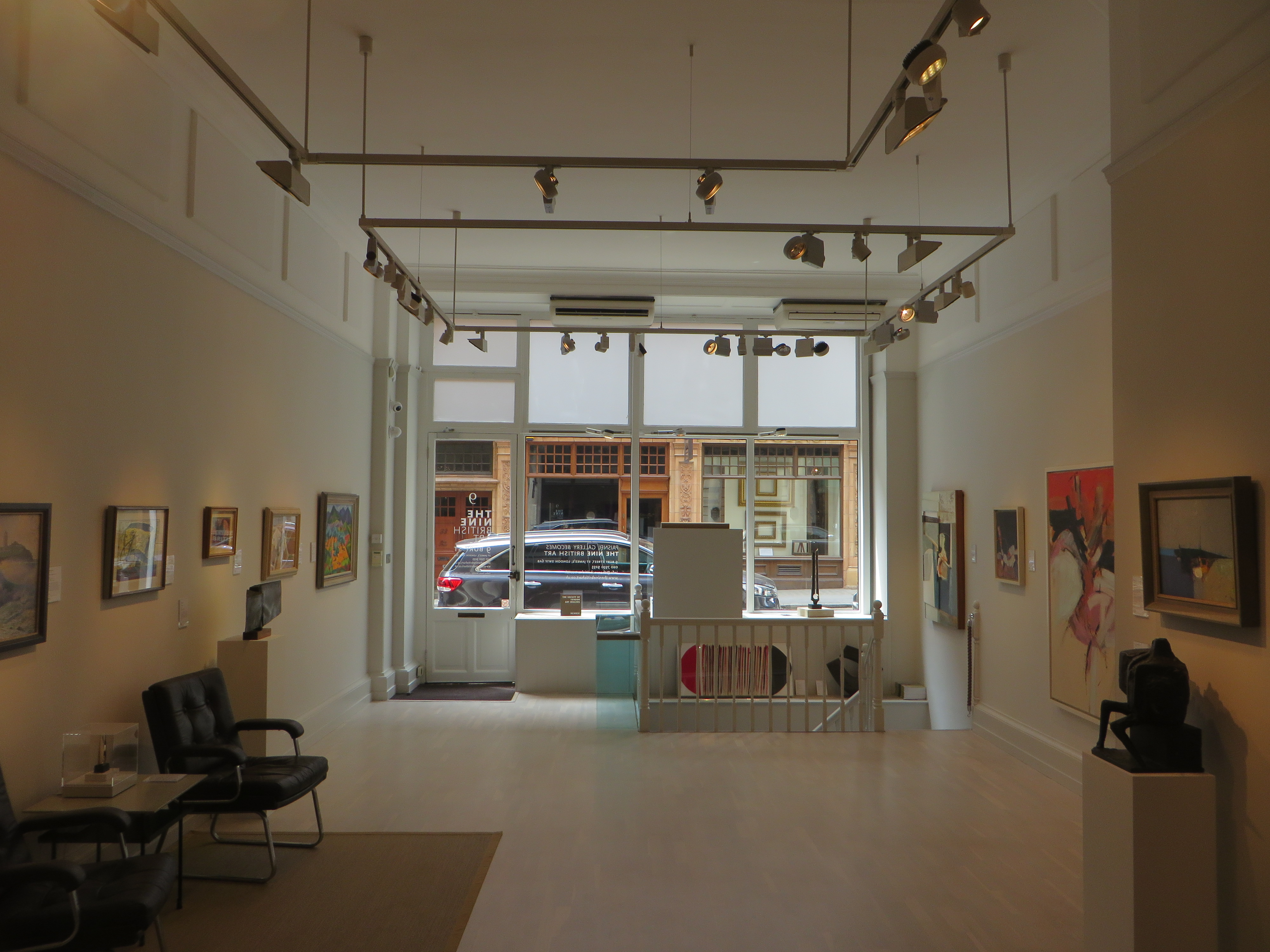 The Nine British Art, art gallery at 9 Bury Street, London, St James's, central London, England. Internal view looking out to the street.